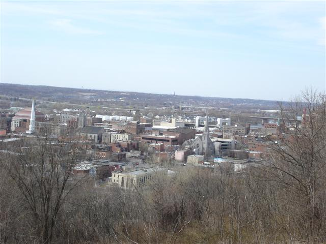 Downtown Troy from top of Prospect Park.